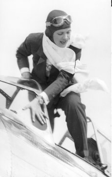 Description: 1938 Bendix Race "Before the United States joined World War, she was part of "Wings for Britain" that delivered American built aircraft to Britain and she became the first woman to fly a bomber (a Lockhead Hudson V) across the Alantic."